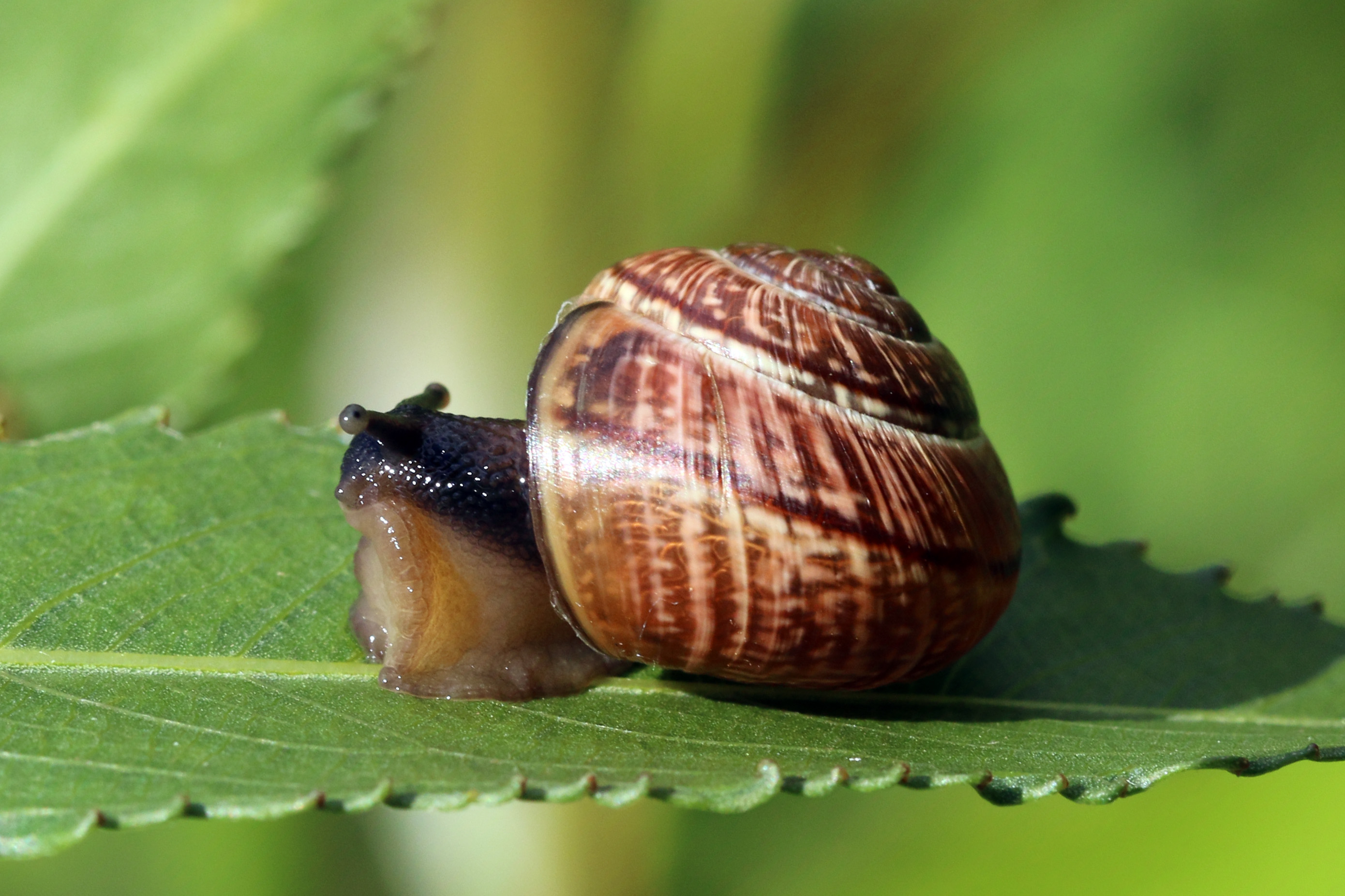 Brown-lipped snail (Cepaea nemoralis), Cumnor Hill, Oxfordshire